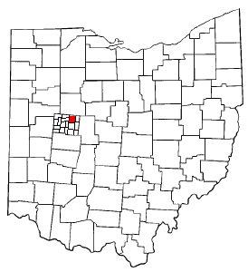 Adapted from Wikipedia's OH county maps. Created by SwissCelt.